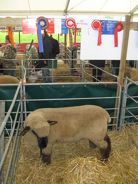 Oxford Down Prizewinning tup.